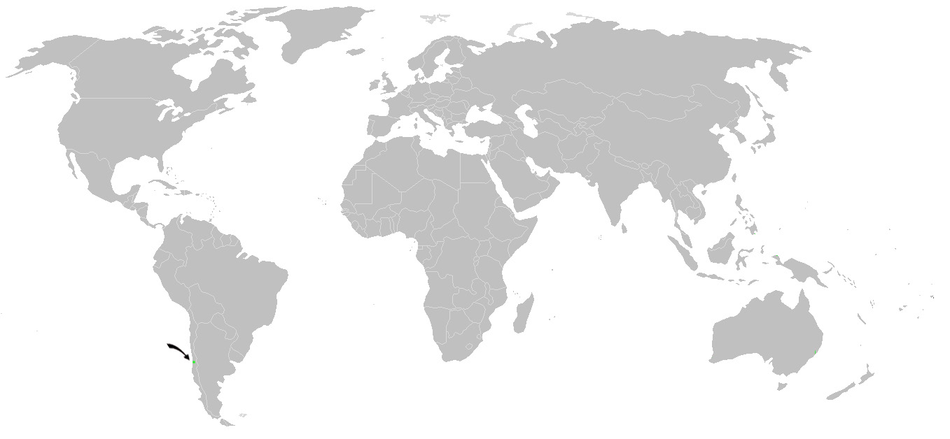 natural range of genus Jubaea